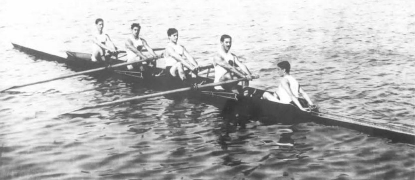 Scipione Del Giudice (left), Brenno Del Giudice, Luigi Ermellini, Mario Tres, and coxswain Giuseppe Mion